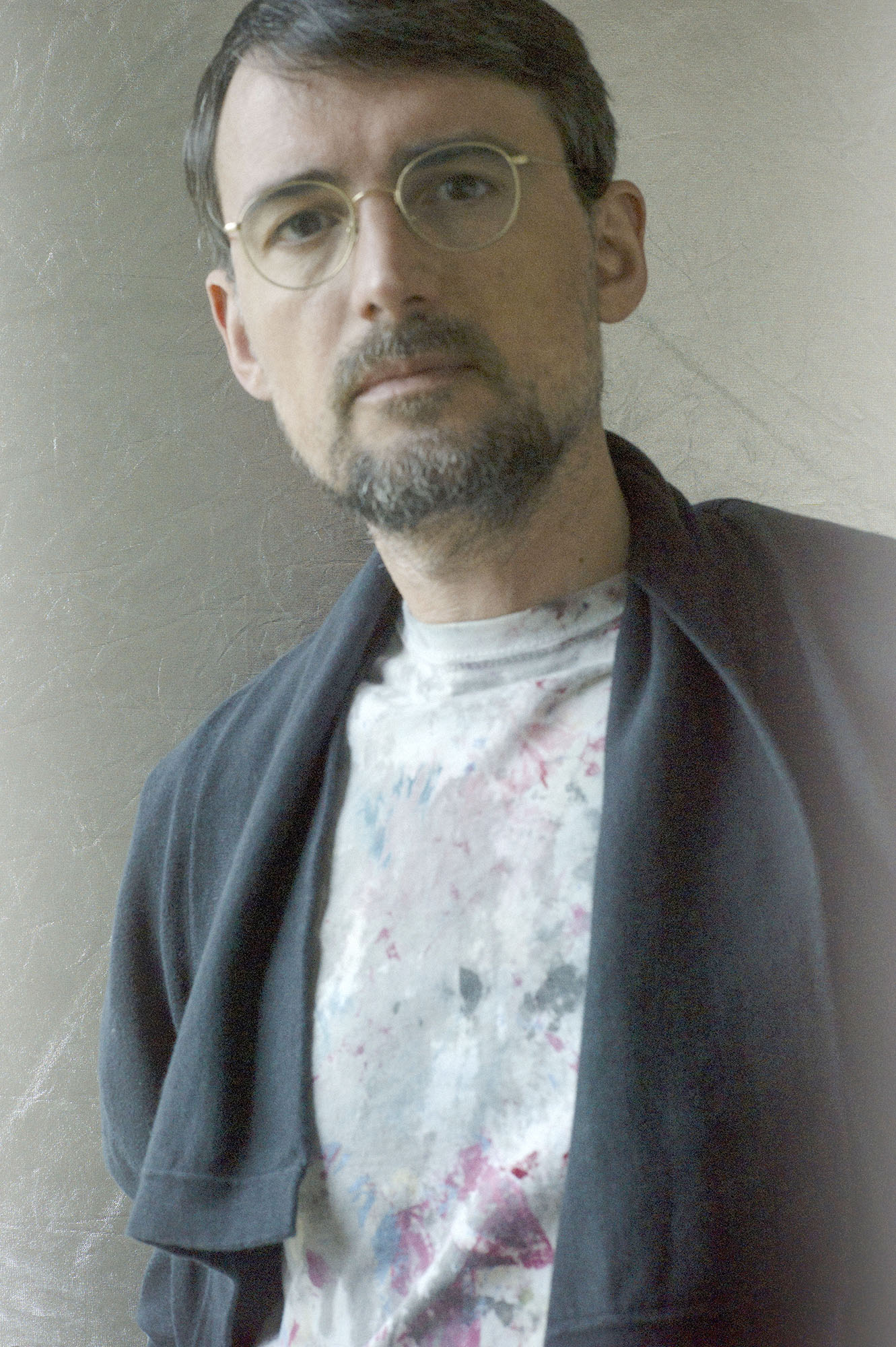 Martin Widmer, artist and curator.